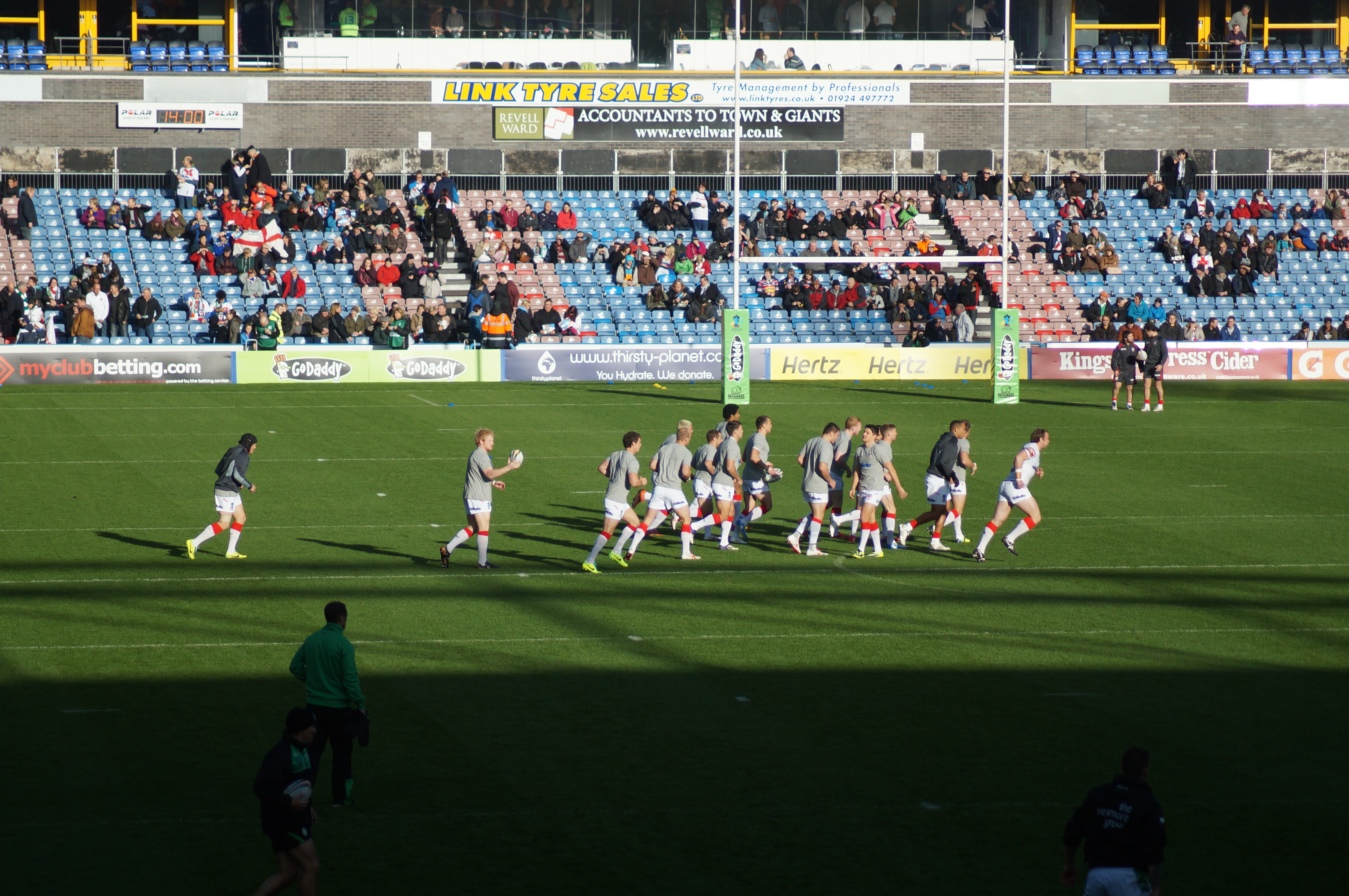 Warm-up before 2013 Rugby League World Cup match between England and Ireland at John Smith's Stadium, Huddersfield.